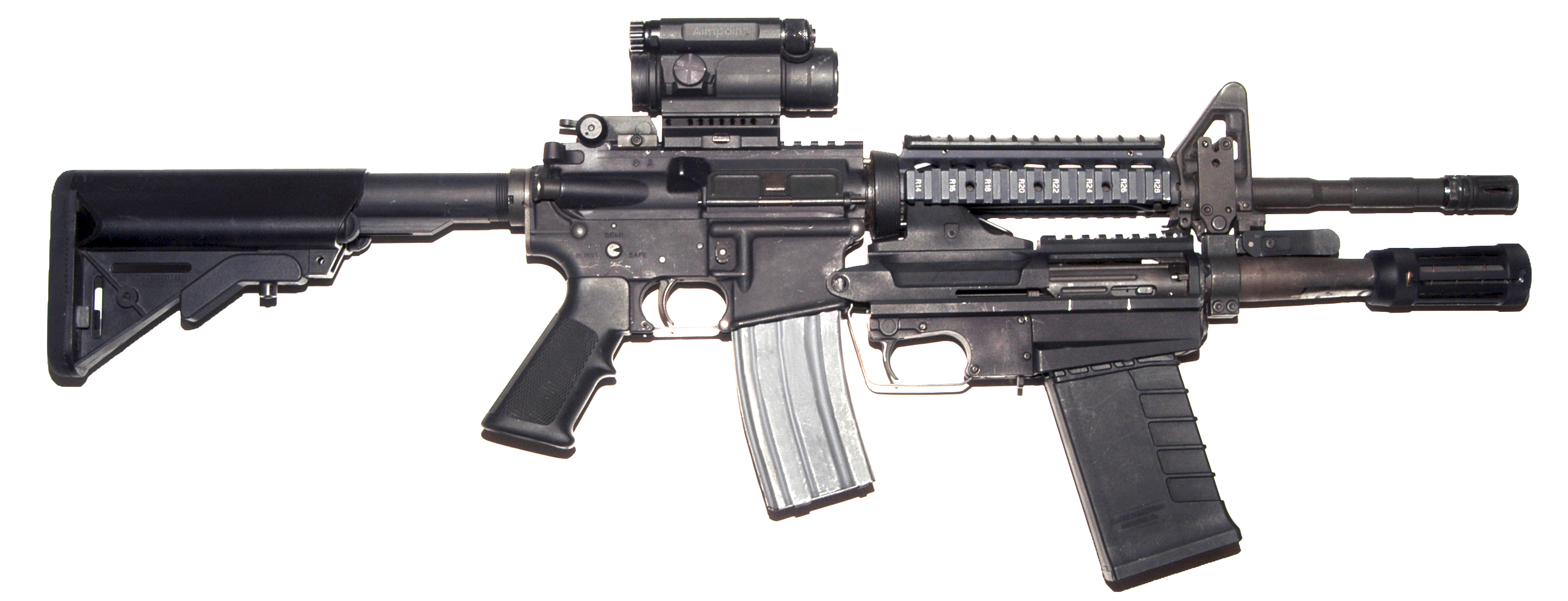 The M26 12-Gauge Modular Accessory Shotgun System (MASS) provides a door breacher, shotgun, and less-than-lethal engagement system as a rifle accessory or as a standalone system without the need for a second weapon.